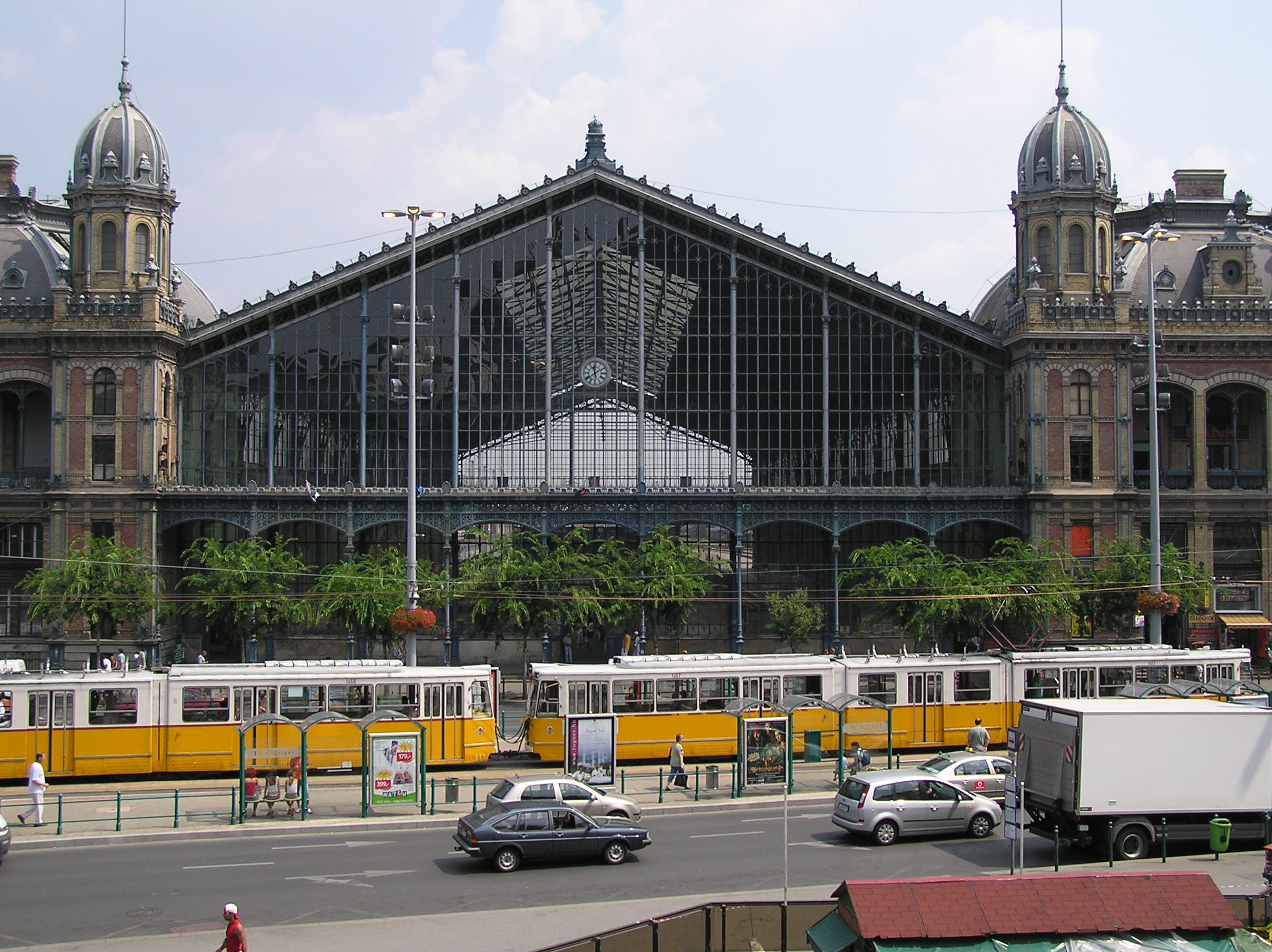 Budapest railway station, built by Eiffel, in 1875